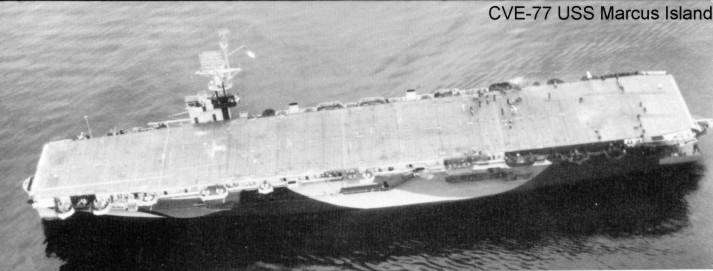 USS Marcus Island (CVE-77). Undated, underway image showing flight deck lay out.